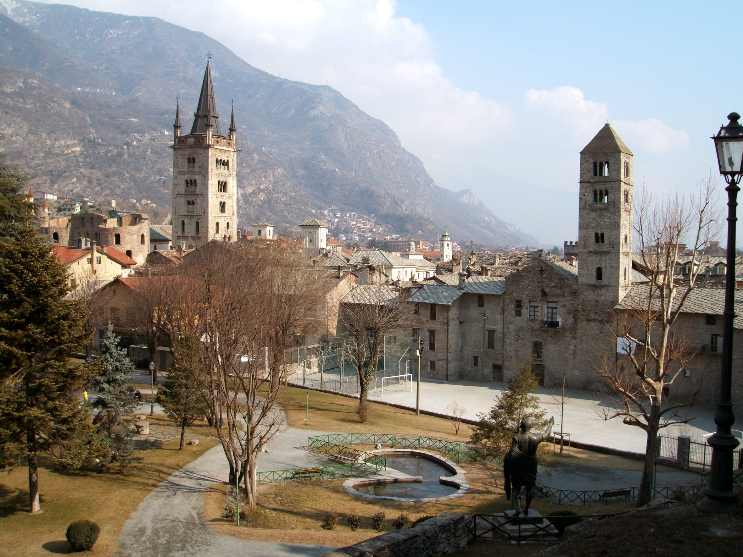 Susa, comune in provincia di Torino, seen from Parco Augusto: on the right the campanile of the former church Santa Maria Maggiore (Greater St Mary's Church) on the left the steeple of San Giusto Cathedral and in front of the cathedral the ruins of Porta Savoia (Savoy Gate) with two round towers.